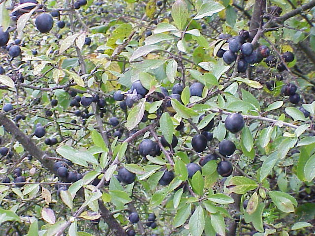 Species: Prunus spinosa Family: Rosaceae Image No. 5